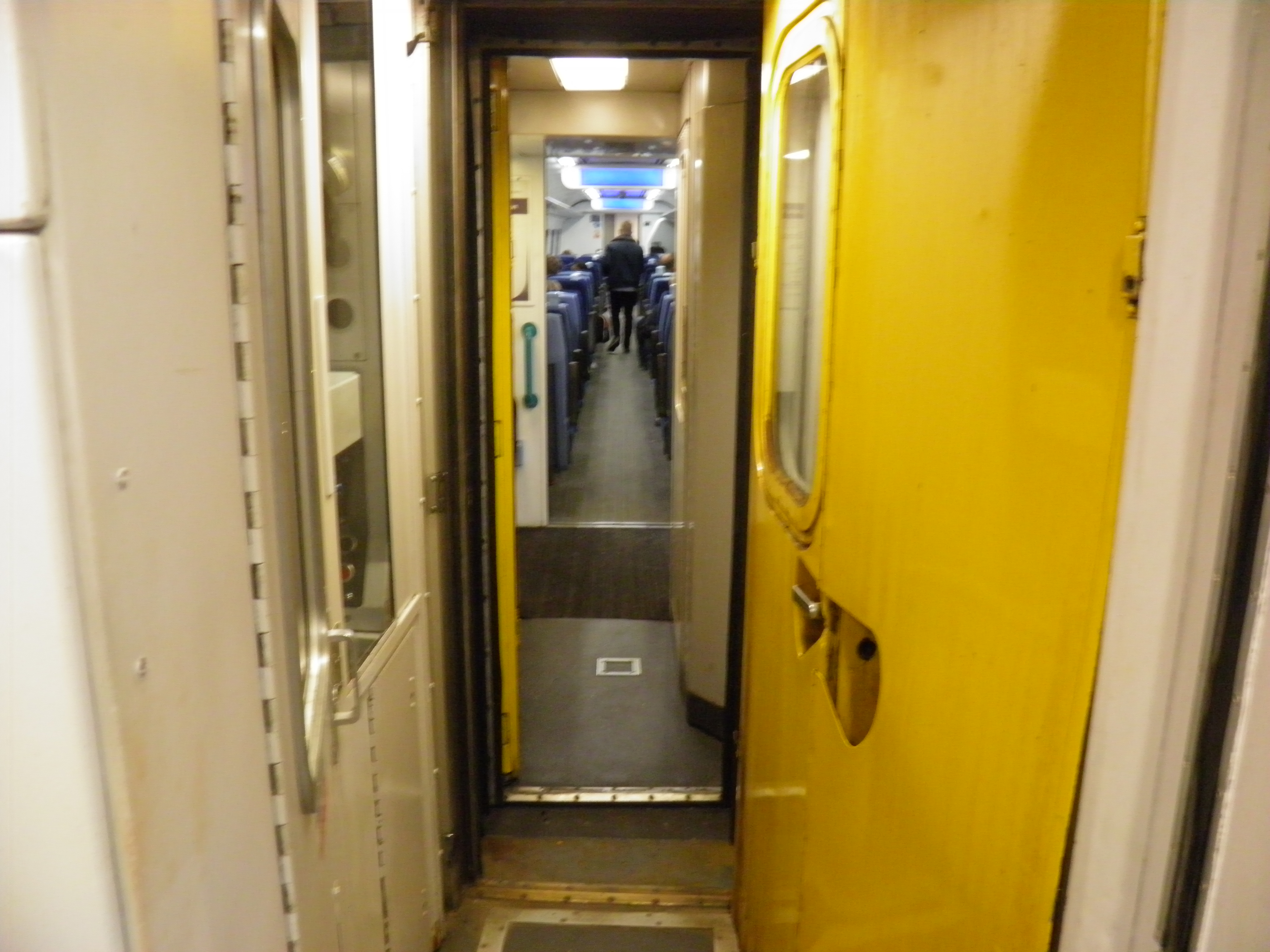 the gangways on the cab ends with the doors blocking off the driver and guards compartments between a class 153 and 158